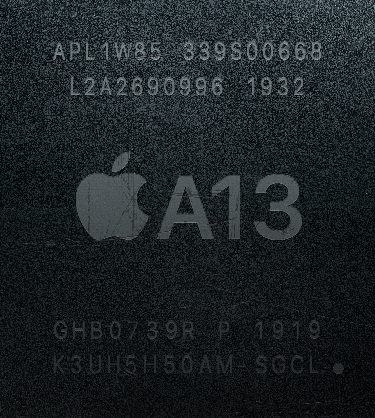 Illustration of the Apple A13 Bionic system-on-a-chip. Inspiration found here